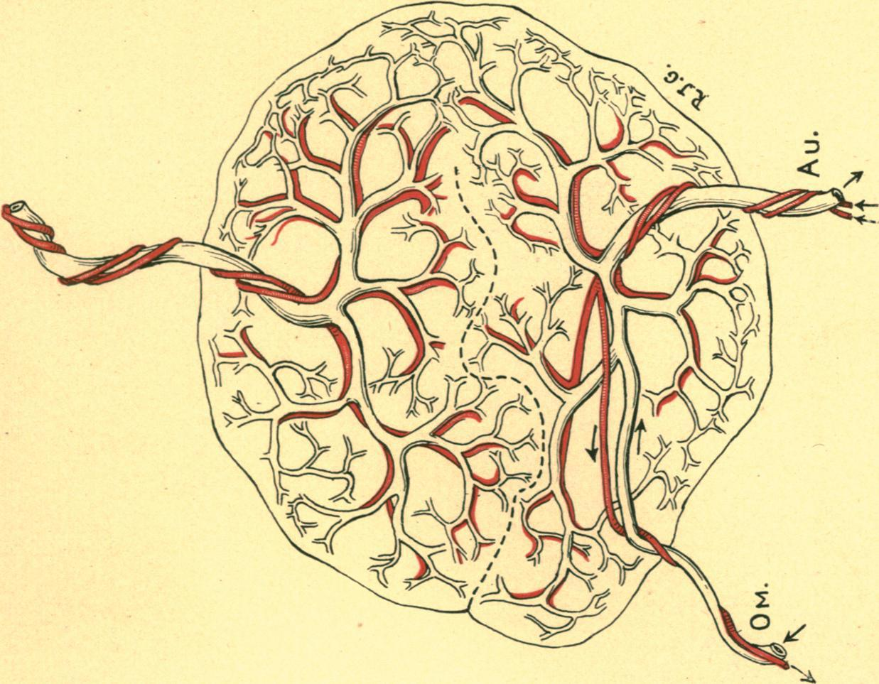 acardiac foetus - scheme of placental circulation